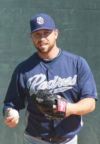 Dale Thayer in 2012 San Diego Padres Spring Training.